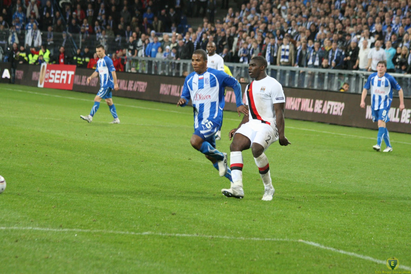 Luis Henríquez and Micah Richards Lech Poznań vs Manchester City FC, 4 November, 2010